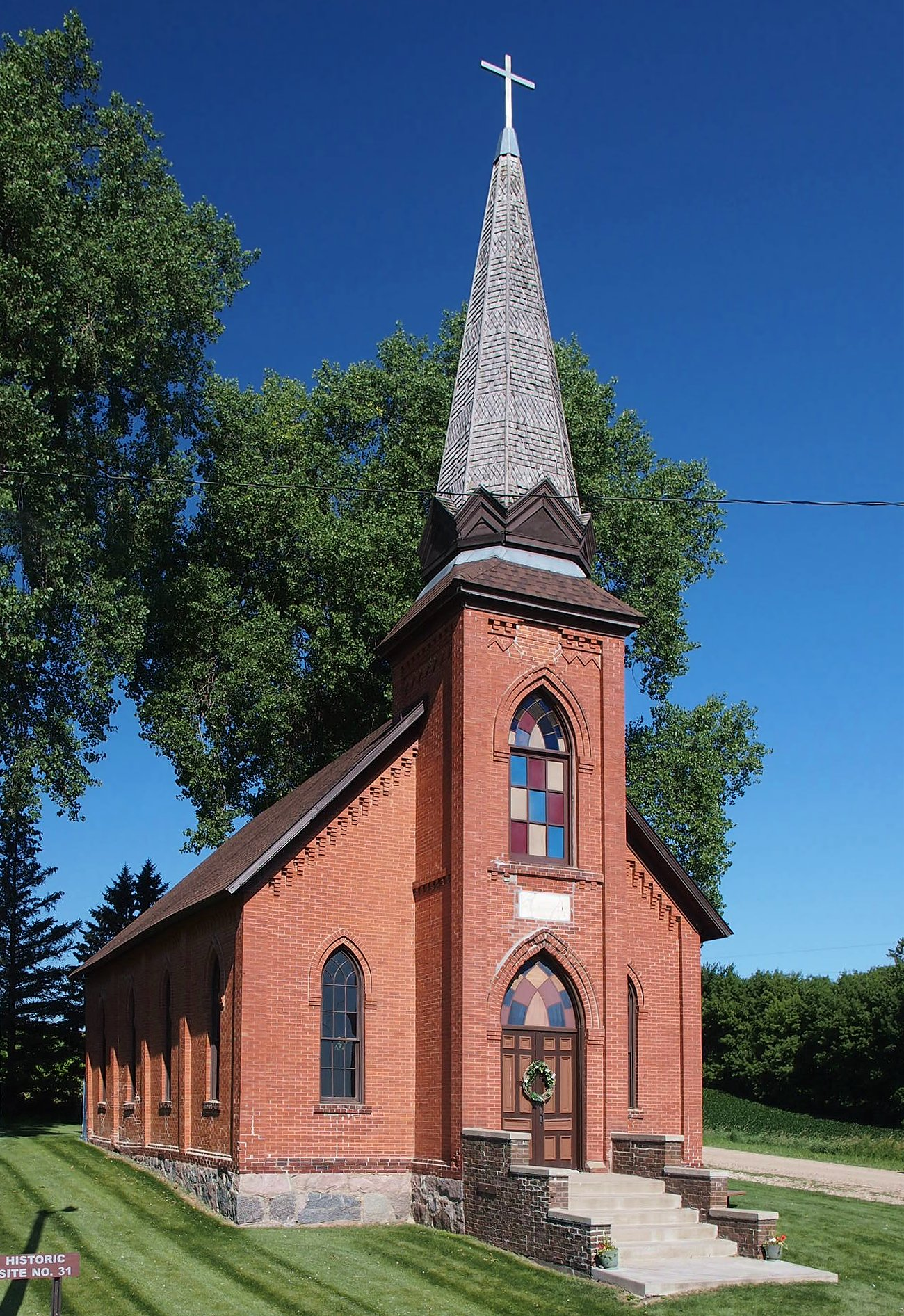 Marysville Swedesburg Lutheran Church, 2505 Dempsey Ave SW, Marysville Township, Minnesota, USA. Viewed from the east-southeast.